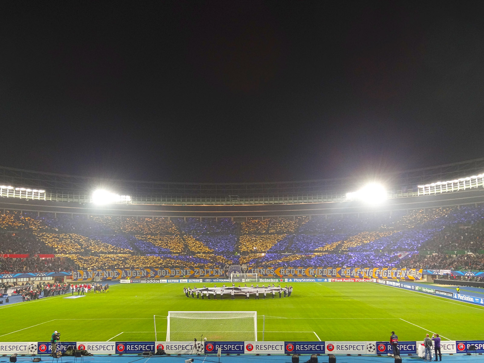 22-Okt-2013 FK Austria Wien - Atletico Madrid 0:3 UEFA Champions League Ernst-Happel-Stadion, Wien